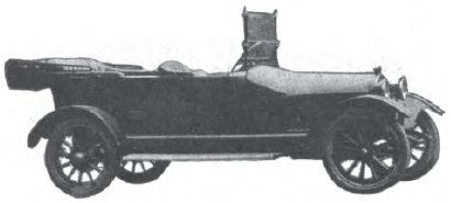 The photo is of a 1916 Spaulding Model A with four cyclinders, a 3-speed transmission, and a price of $750. The photo comes from page 5 of the journal. From Google Books: Link: Title Horseless Age: the automobile trade magazine, Volume 37 Publisher The Horseless age company, 1916 Original from the University of Michigan Digitized Oct 23, 2009